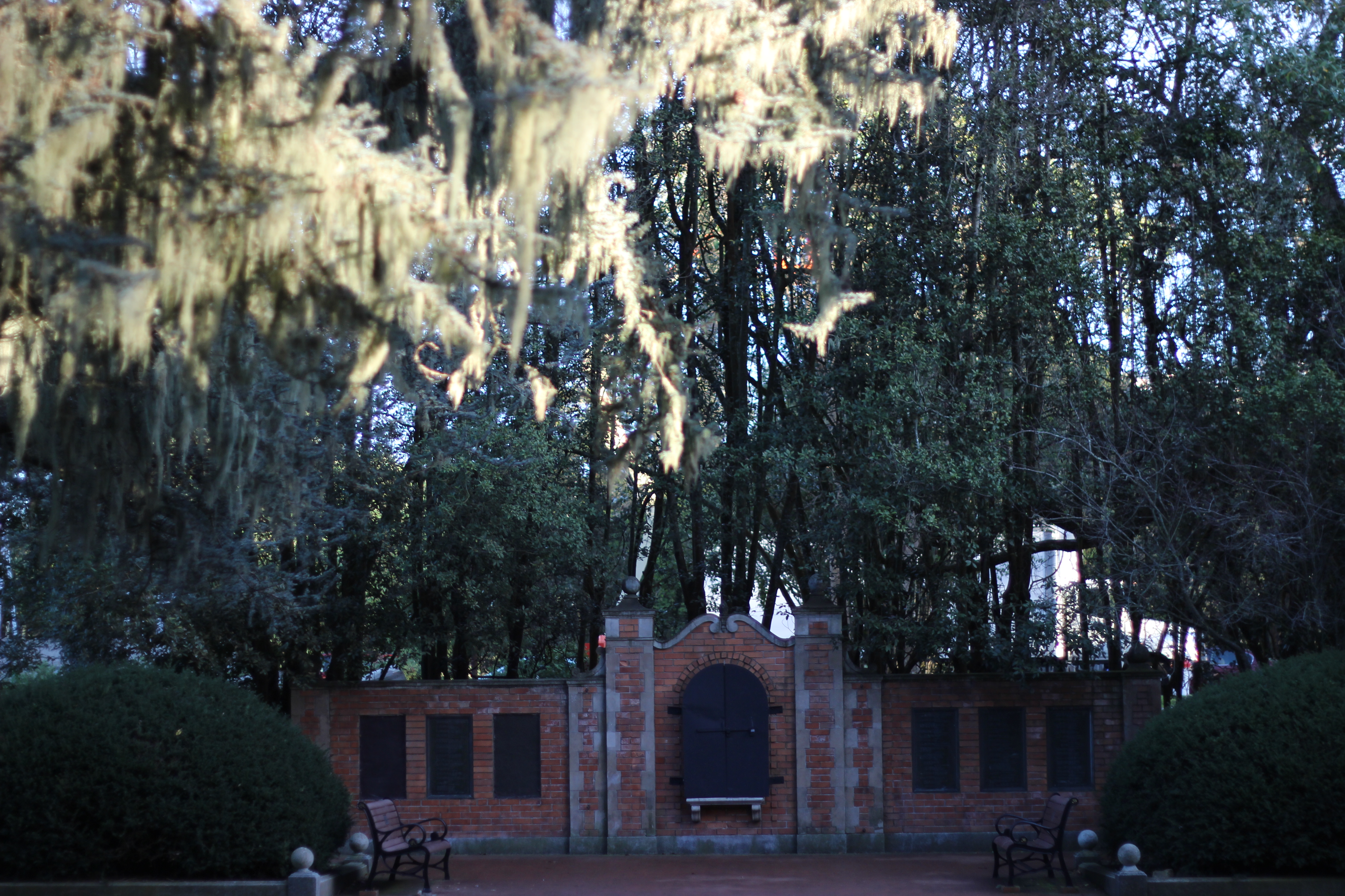 in shakespeare garden